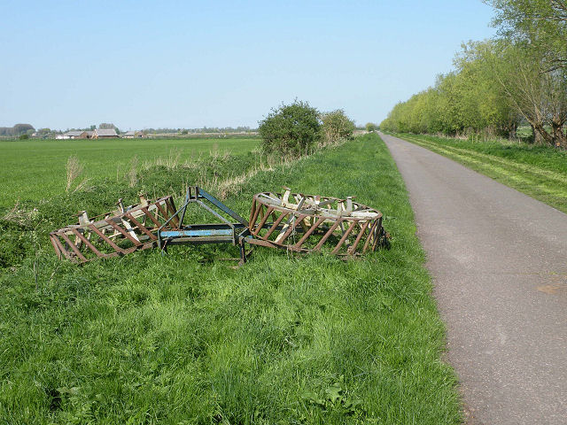 Tractor cage wheel beside Lug Fen Droveway, near to Clayhithe, Cambridgeshire, Great Britain. Cage wheels like this were used to spread the load of tractors in the days before suitable pneumatic tyres became available. In the centre is a Dutch harrow, combined with a couple of cage wheels to create an artistic ensemble.